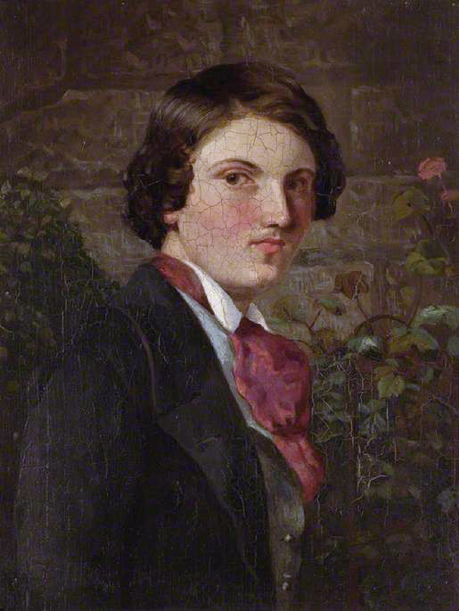 Self portrait oil on canvas 25.7 x 20.3 cm circa 1849